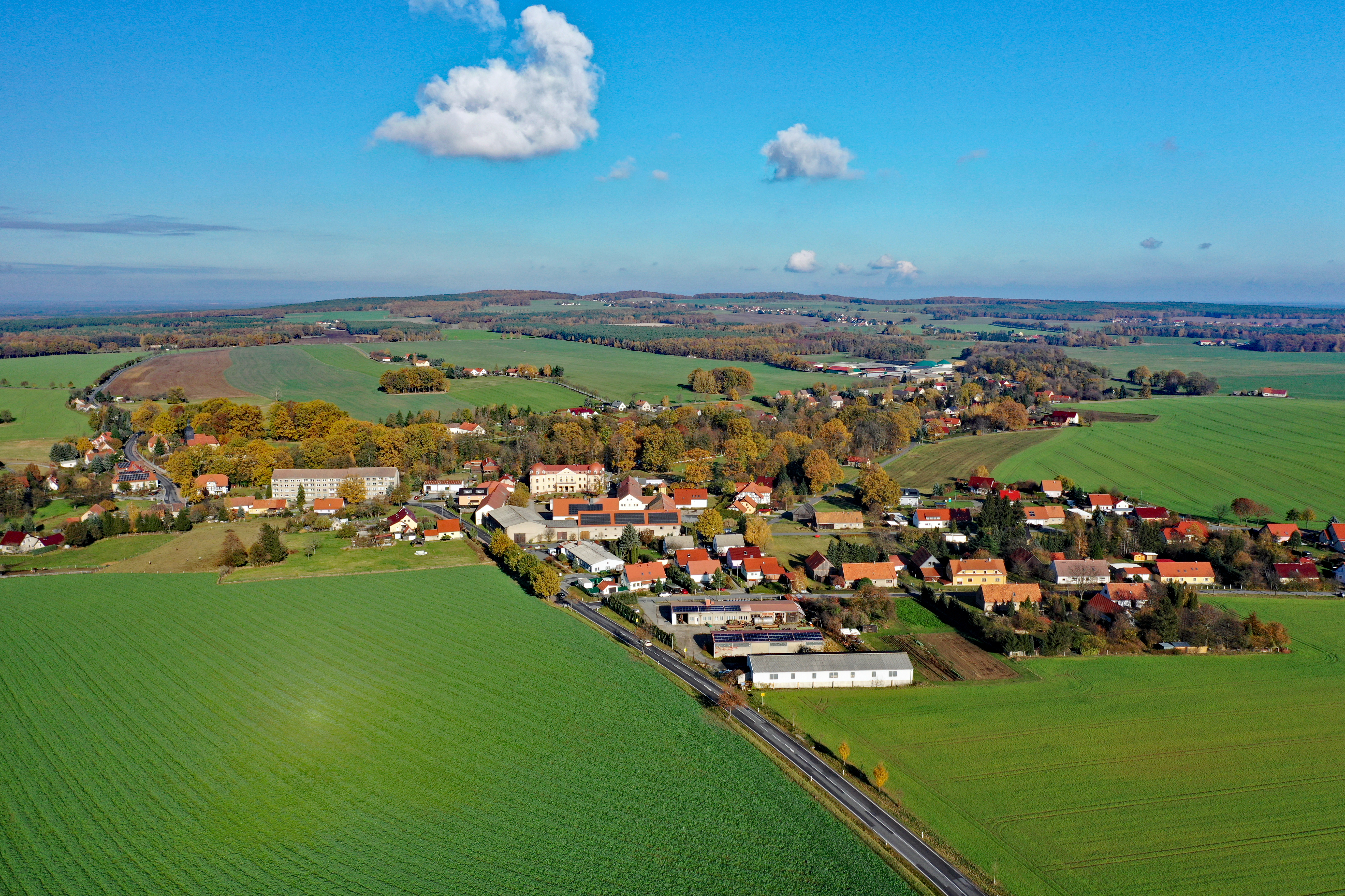 Gebelzig (Hohendubrau, Landkreis Görlitz, Saxony, Germany) Hornjoserbsce: Powětrowy wobraz Hbjelska